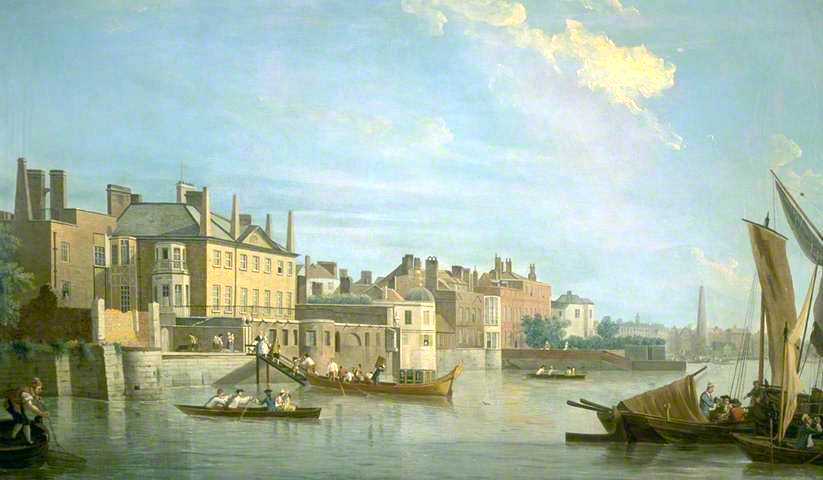 A view of the River Thames in London showing Montagu House by Samuel Scott, 1750.